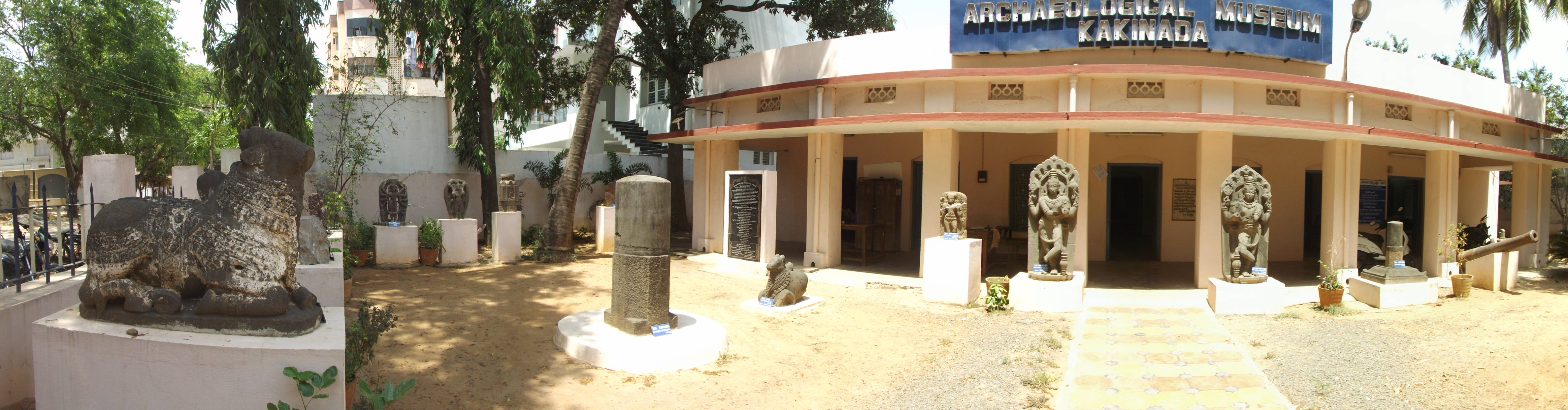 Andhra Sahitya parishat ( ANDHRA SAHITYA PARISHAD GOVERNMENT MUSEUM AND RESEARCH INSTITUTE ) Kakinada